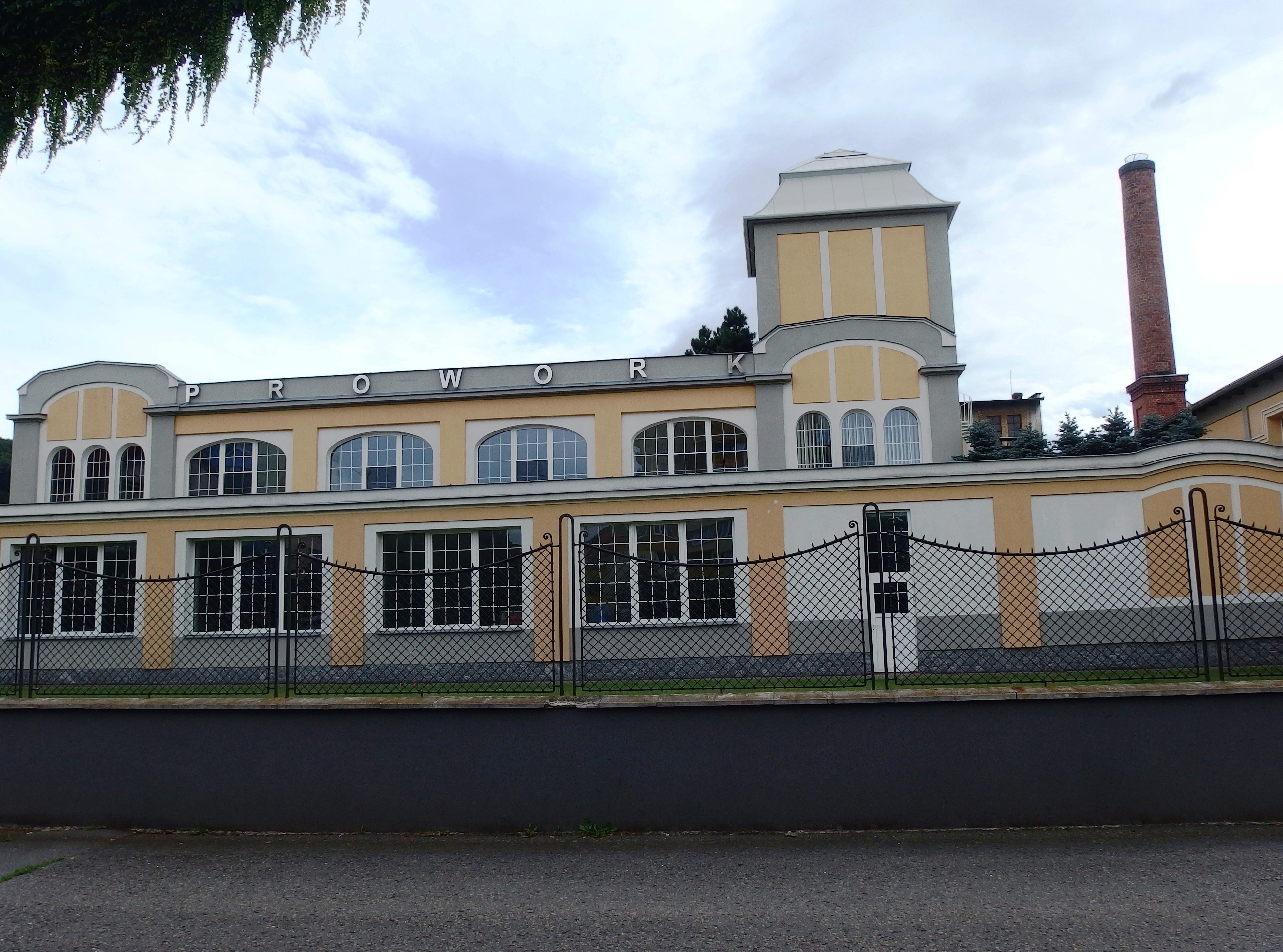 Krnov, Bruntál District, Czech Republic, part Pod Cvilínem.